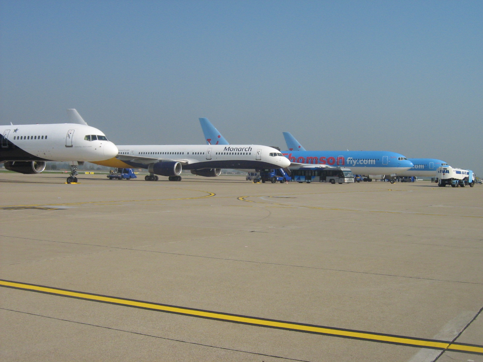 Airport apron